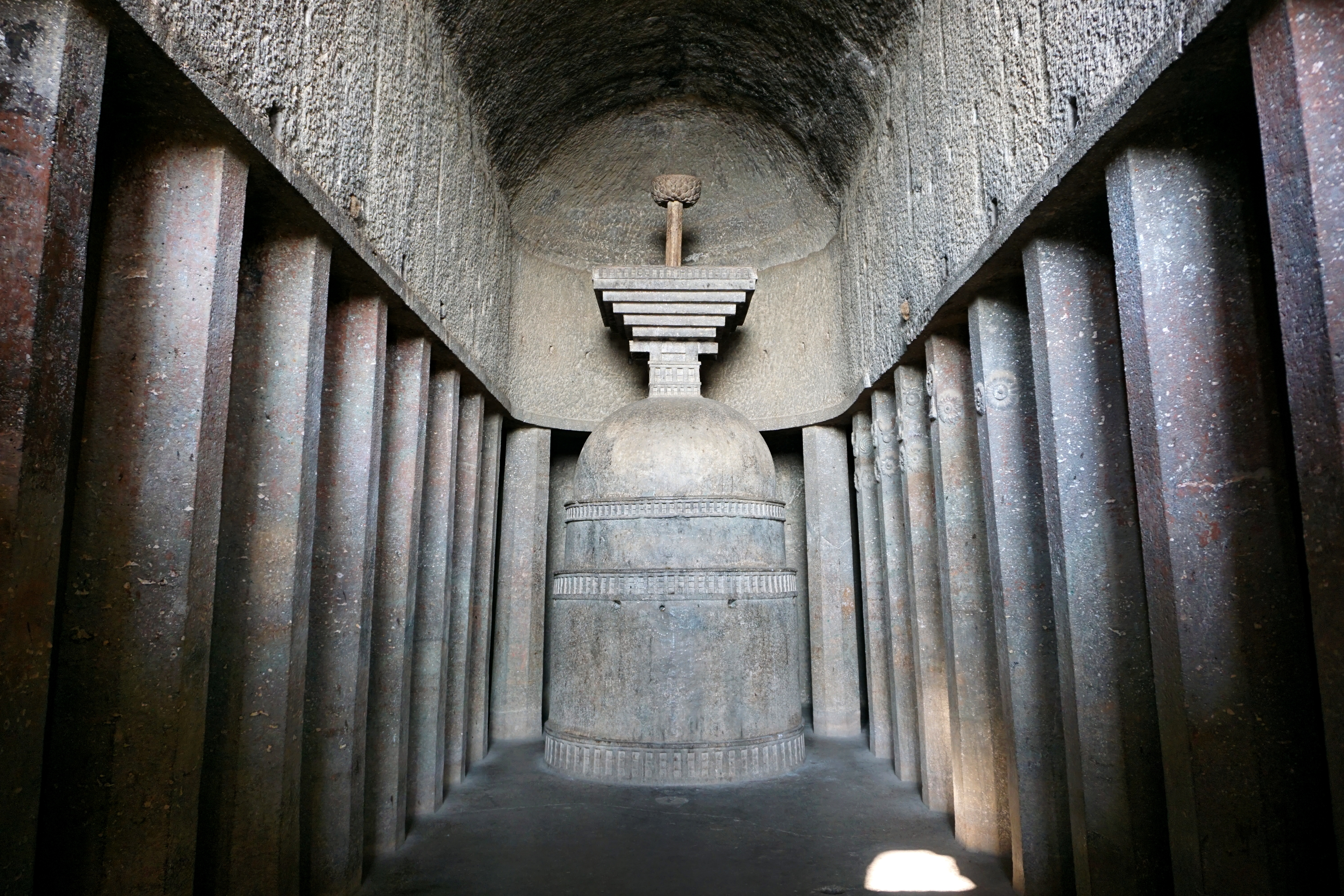 09 Chaitya and Simple Columns, Bedse Caves, Lonavala, photograph by Anandajoti Bhikkhu Bedse Caves, Lonavala, India